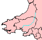 Map showing the course of the River Towy (Afon Tywi) in Wales